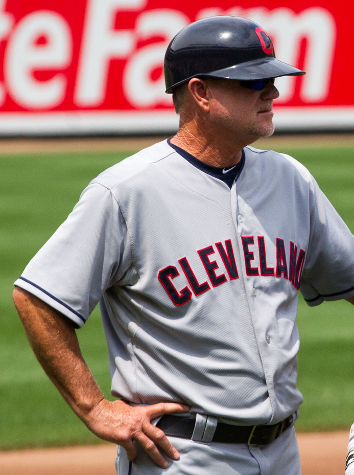 Indians at Orioles July 1, 2012